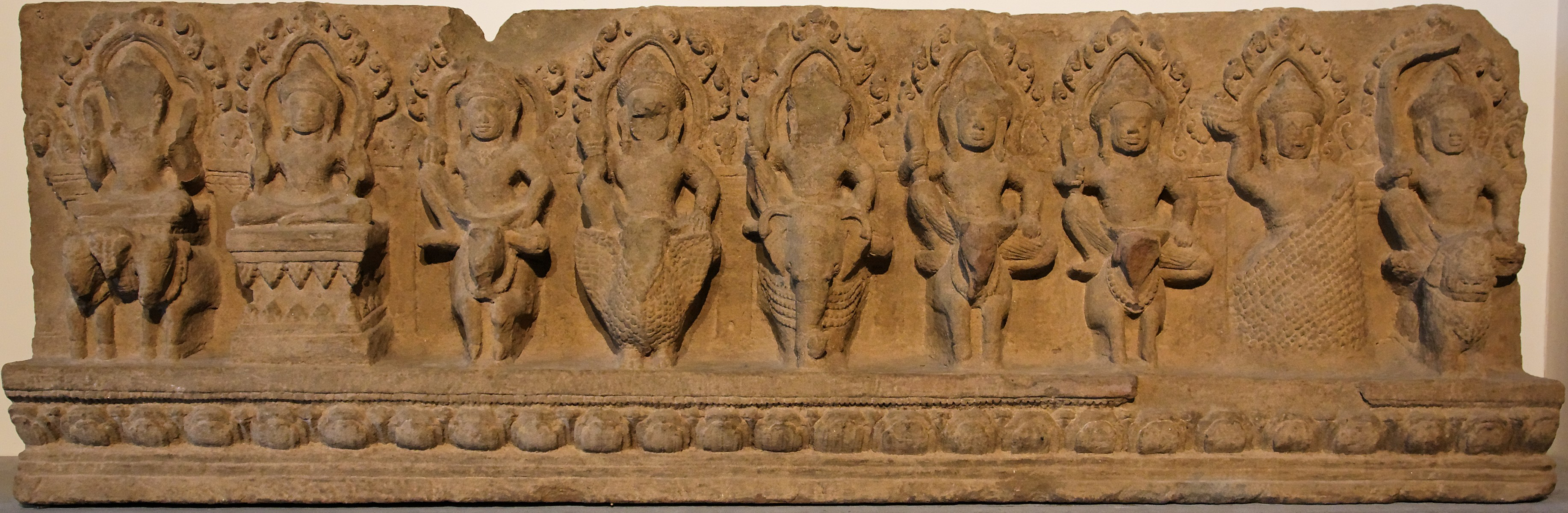 Nine Devas - Source unknown exact - Style Khleang - Last quarter of the tenth century, early eleventh century - Sandstone - Musée Guimet, Paris - Left to right: Surya (the sun) on a chariot pulled by two horses, Candra (moon) on a pedestal, Yama (judge of the dead, guardian of the South) on the buffalo, Varuna (god of water, guardian of the west) on Hamsa, Indra (king of gods, guardian of the east) on elephant Airavata, Kubera (god of wealth, guardian of the north) on the horse, Agni (god of fire, the guardian of the south-east) on the ram, Rahu (the demon of eclipse) in a swirl of clouds and Ketu (comet) on the lion.